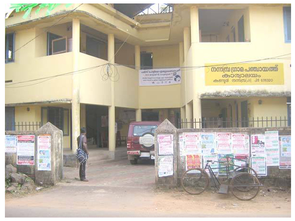 Nannambra Grama Panchayath Office